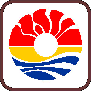 Coat of arms of the municipality of Benito Juárez, Quintana Roo, México.